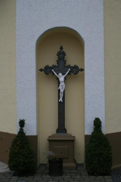 Cultural heritage monument No. 49 in Gangelt